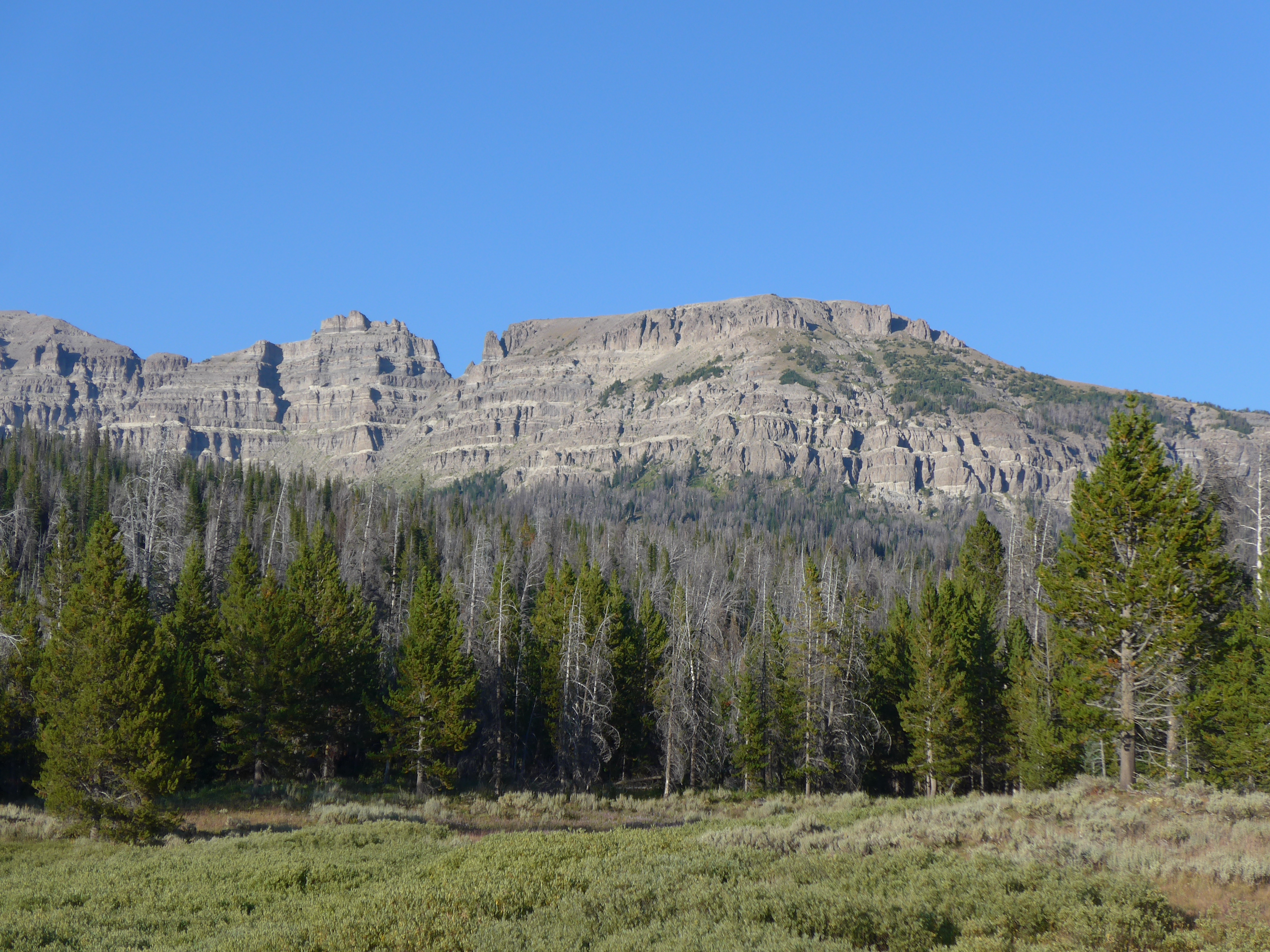 Breccia Peak (middle) from southwest, from U.S. Highway 287/26 northwest of Togwotee Pass